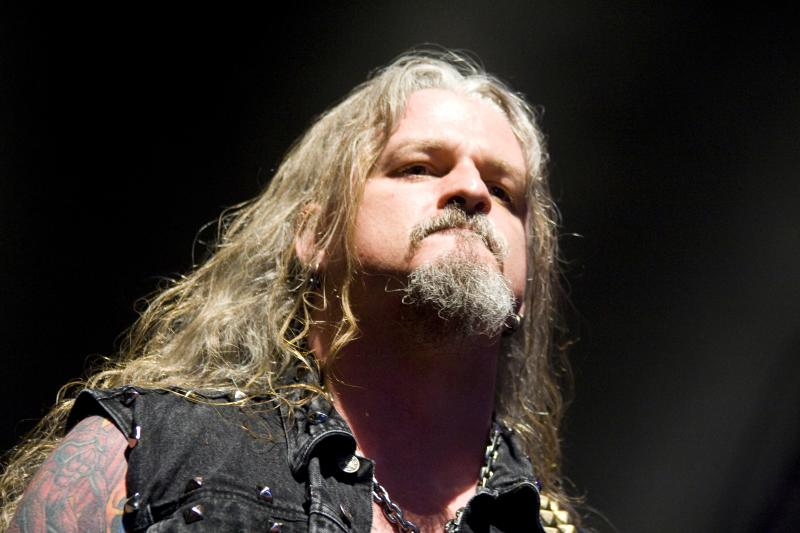 Jon Schaffer performing with Iced Earth in 2010.